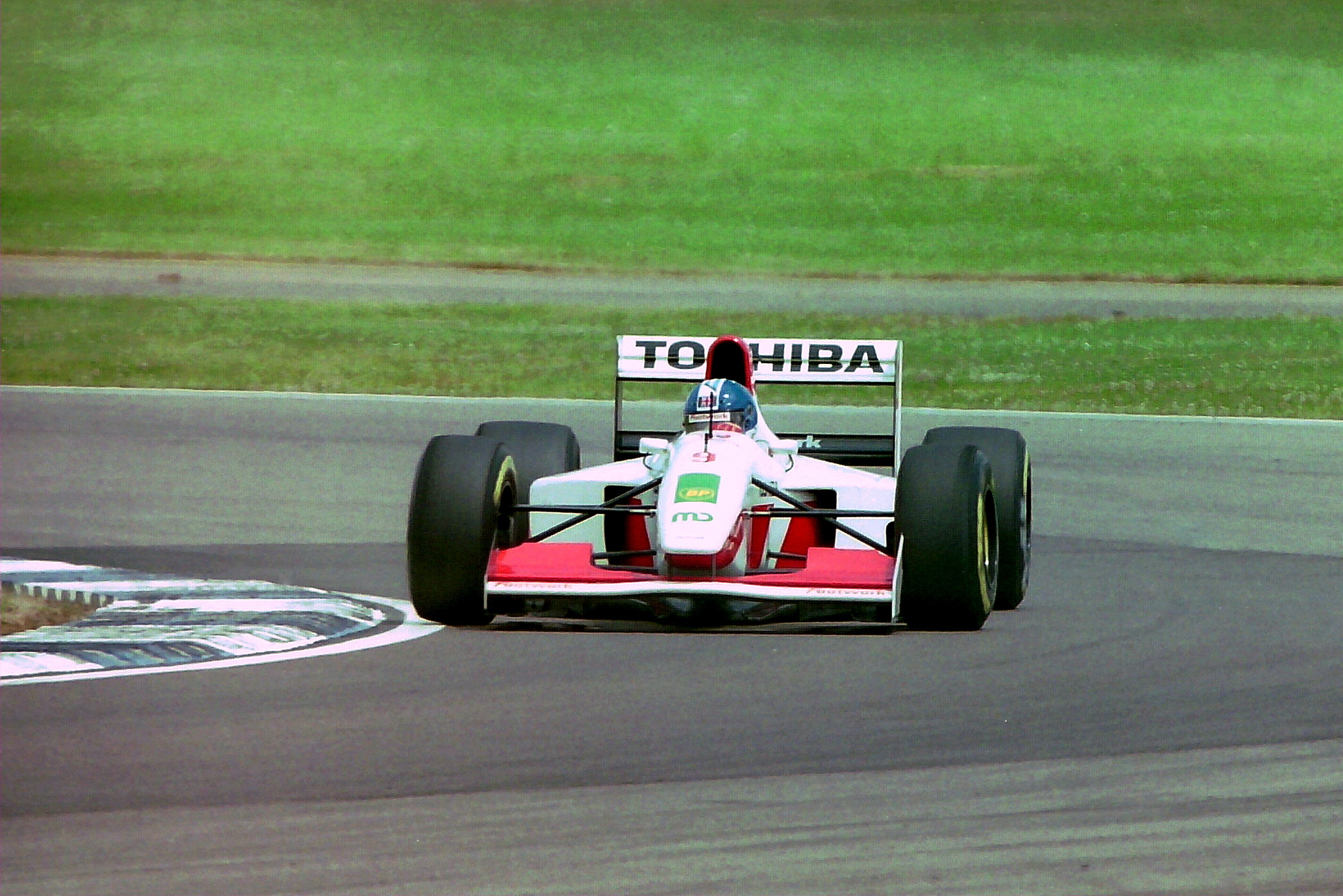 Derek Warwick - Footwork FA14 during practice for the 1993 British Grand Prix